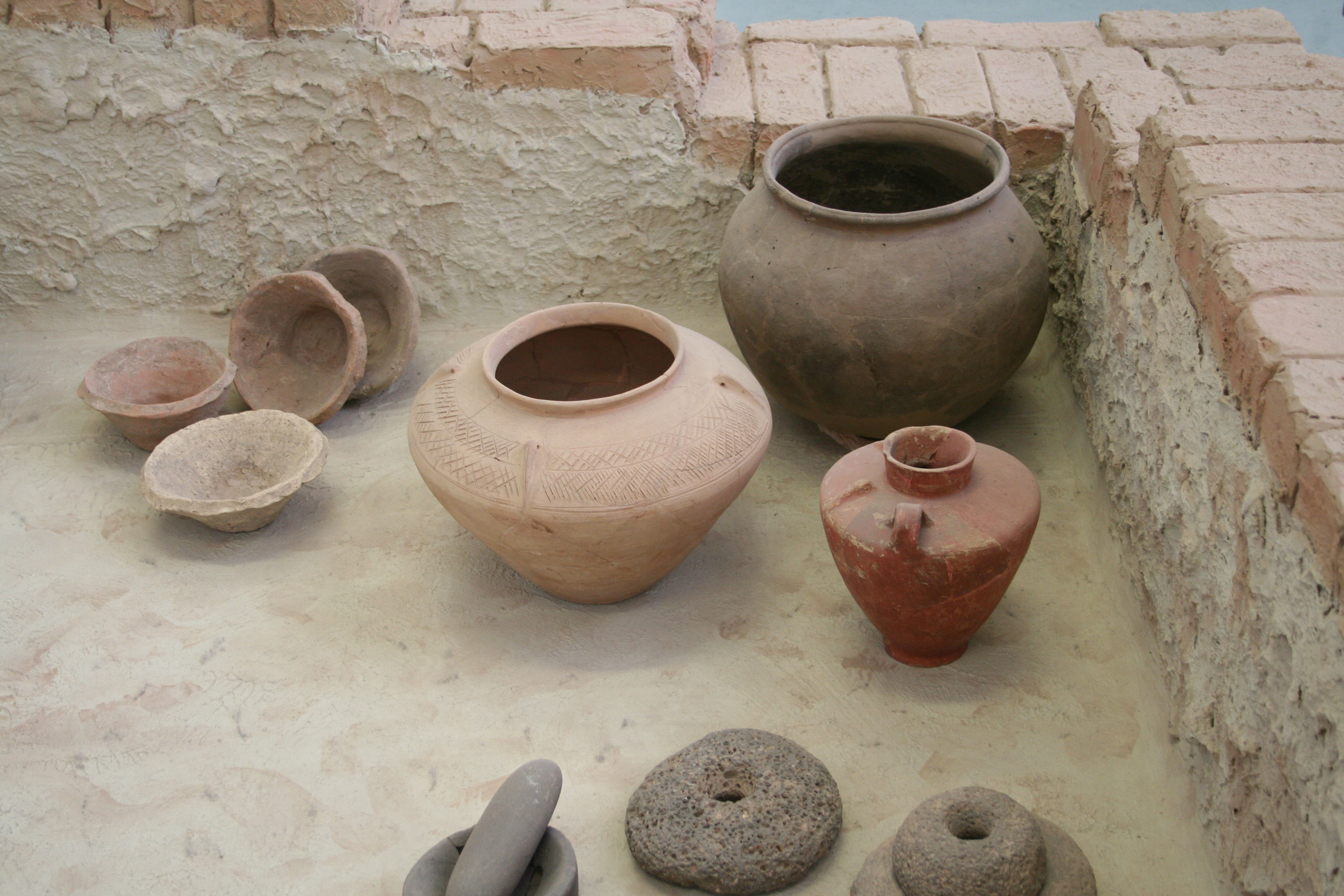 Vorderasiatisches Museum (Near East Museum), Berlin